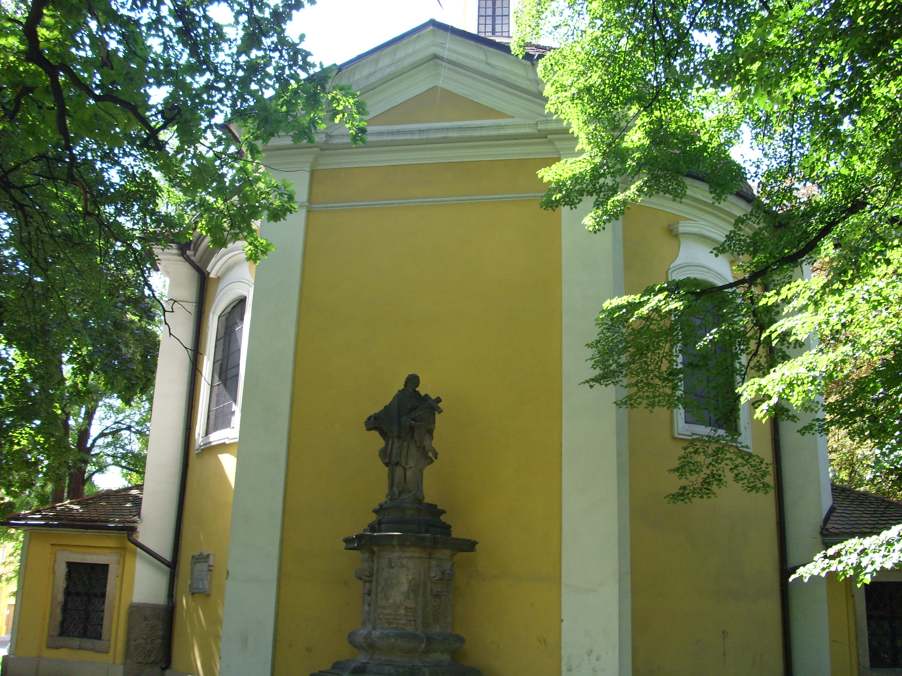 Back side of Church of Saint Barbora in Duchcov, Czech Republic. The possible rest (death?) place of Giacomo Casanova.